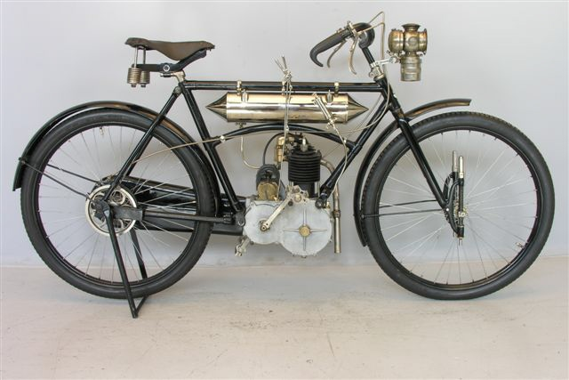 Rochet 2 hp motorcycle 1906